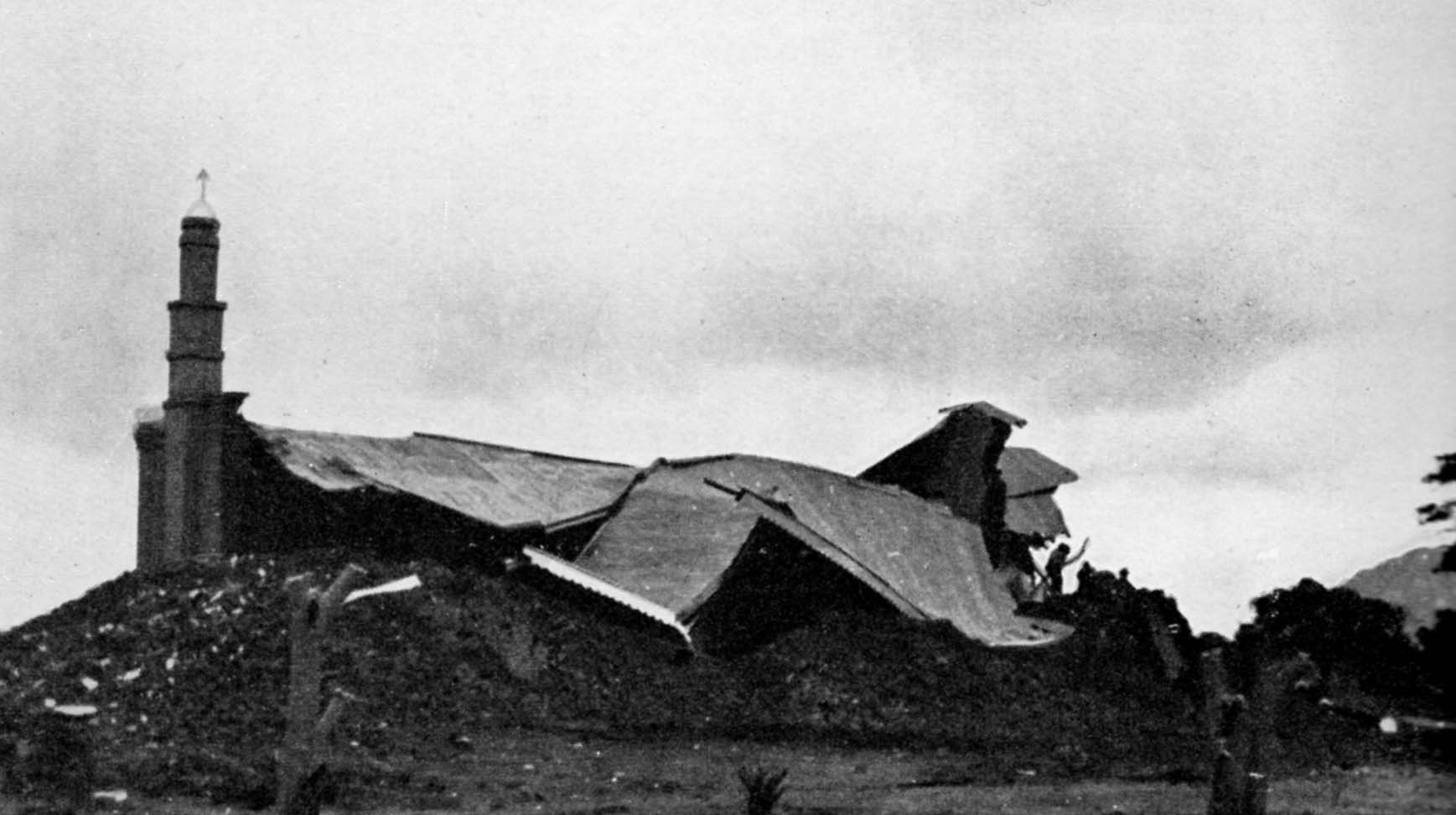 View of the church of the Providence Industrial Mission in Mbombwe, Nyasaland, shortly after its destruction by government troops (1915)